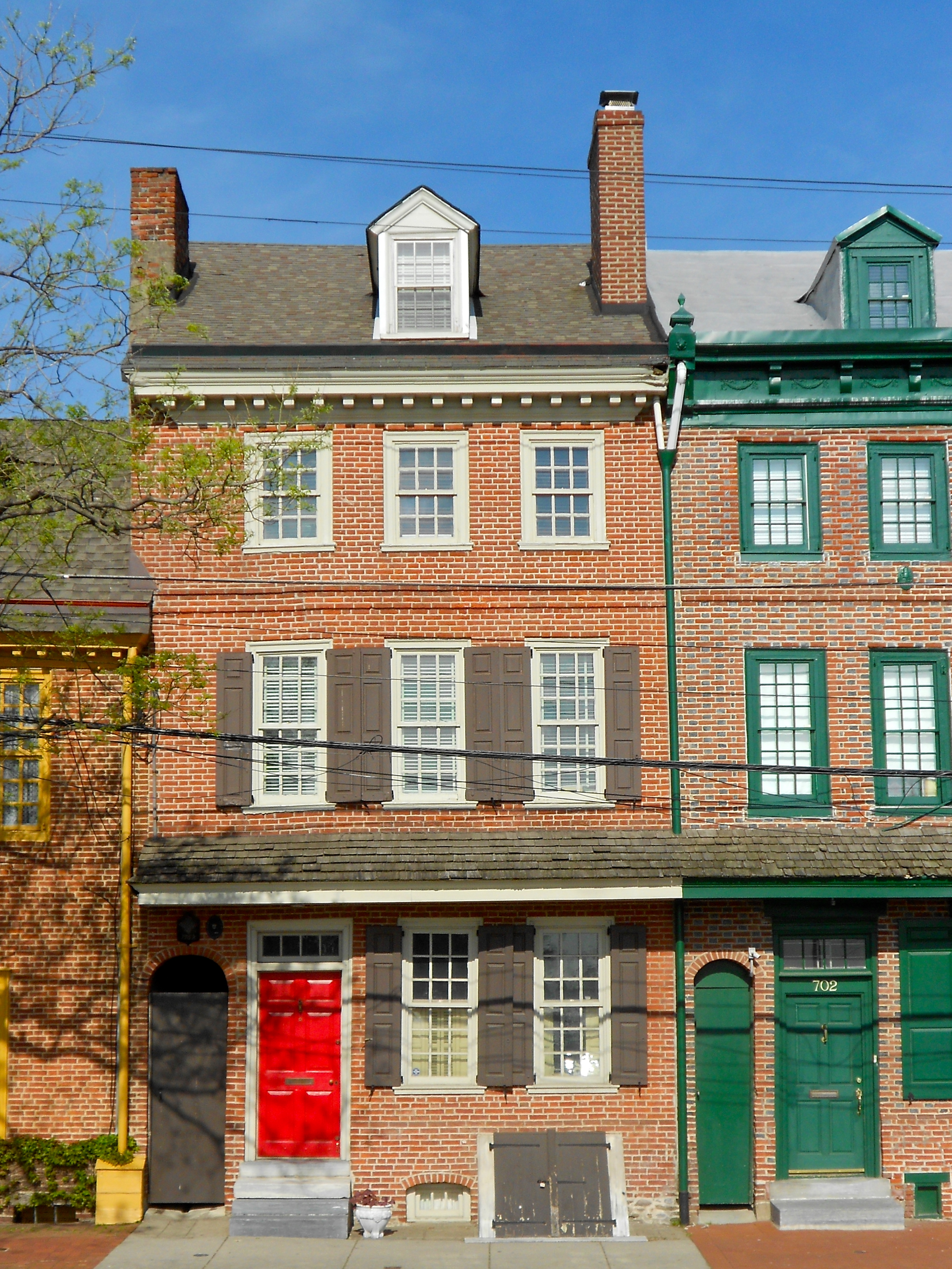 House at 704 South Front street, Philadelphia, Pennsylvania. 700-712 are listed on the NRHP as the South Front Street Historic District and 704 is listed separately as the Nathaniel Irish House.